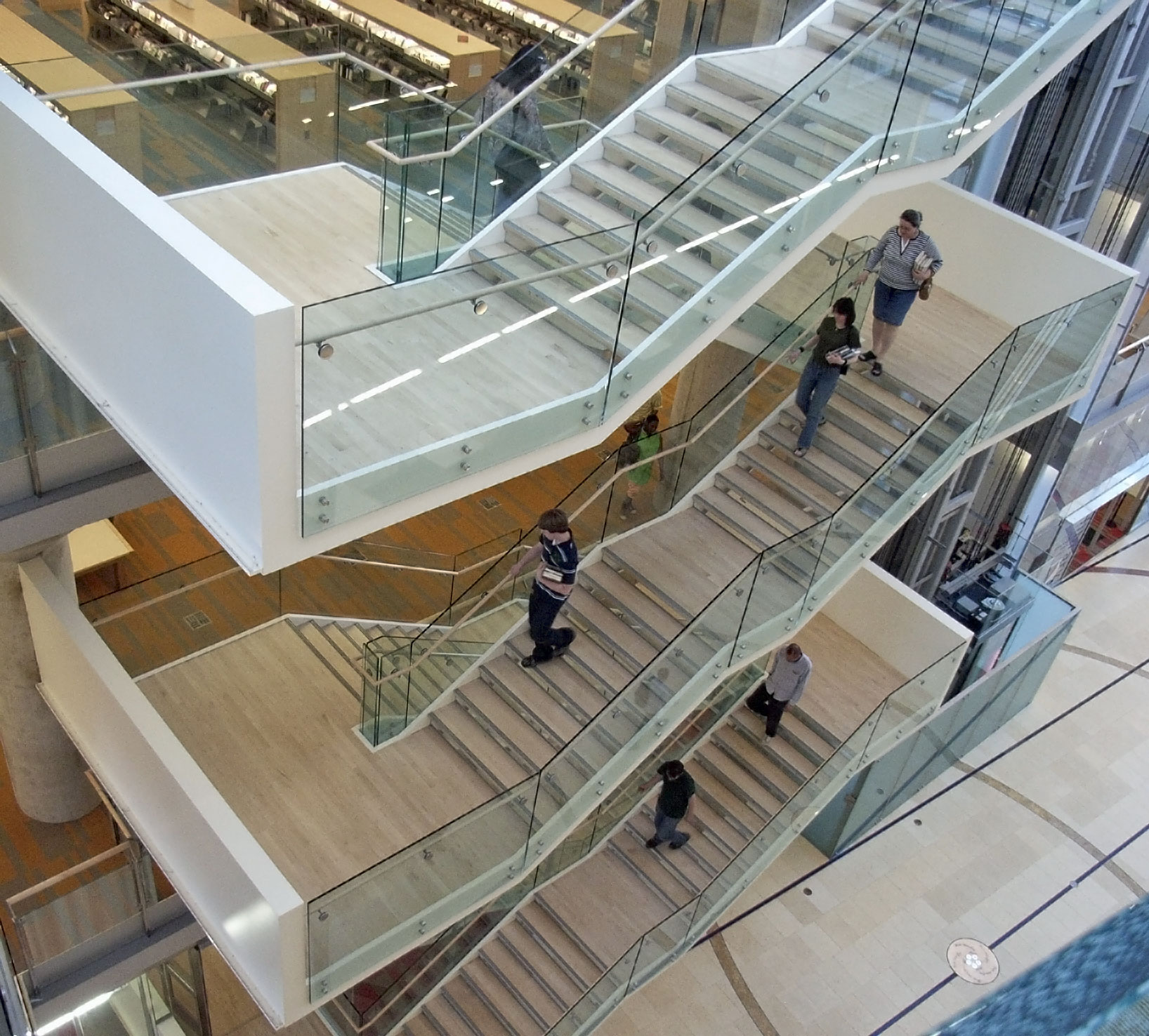 Staircases in the Minneapolis Central Library.